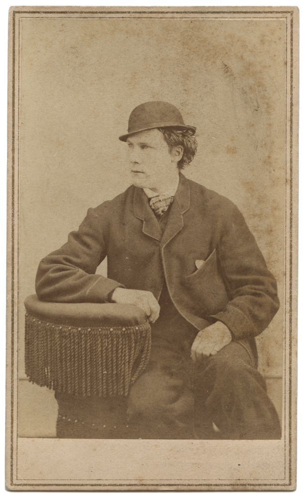 Title: [William Redish Pywell] Creator: Gardner, Alexander, 1821-1882 Date: ca. 1857-1865 Part Of: Gardner cartes de visite and portraits Place: Washington, D.C. Physical Description: 1 photographic print on carte de visite mount: albumen; 10 x 6 cm. File: ag2005_0004_19c_pywell.jpg Rights: Please cite DeGolyer Library, Southern Methodist University when using this file. A high-resolution version of this file may be obtained for a fee. For details see the web page. For other information, . For more information and to view the image in high resolution, View the Civil War